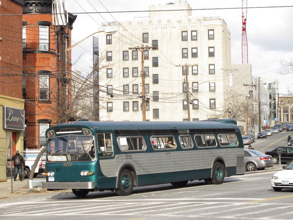 Manhattan and Bronx Surface Transit Operating Authority Flxible New Look 111CC-D5-1 4727, a museum bus preserved by the Metropolitan Transportation Authority (New York)'s NYC Transit Authority subsidiary, waits at a red light on Bay Street on the S61 route. This bus, serial #53498, was the last Flxible New Look to be delivered in green paint.